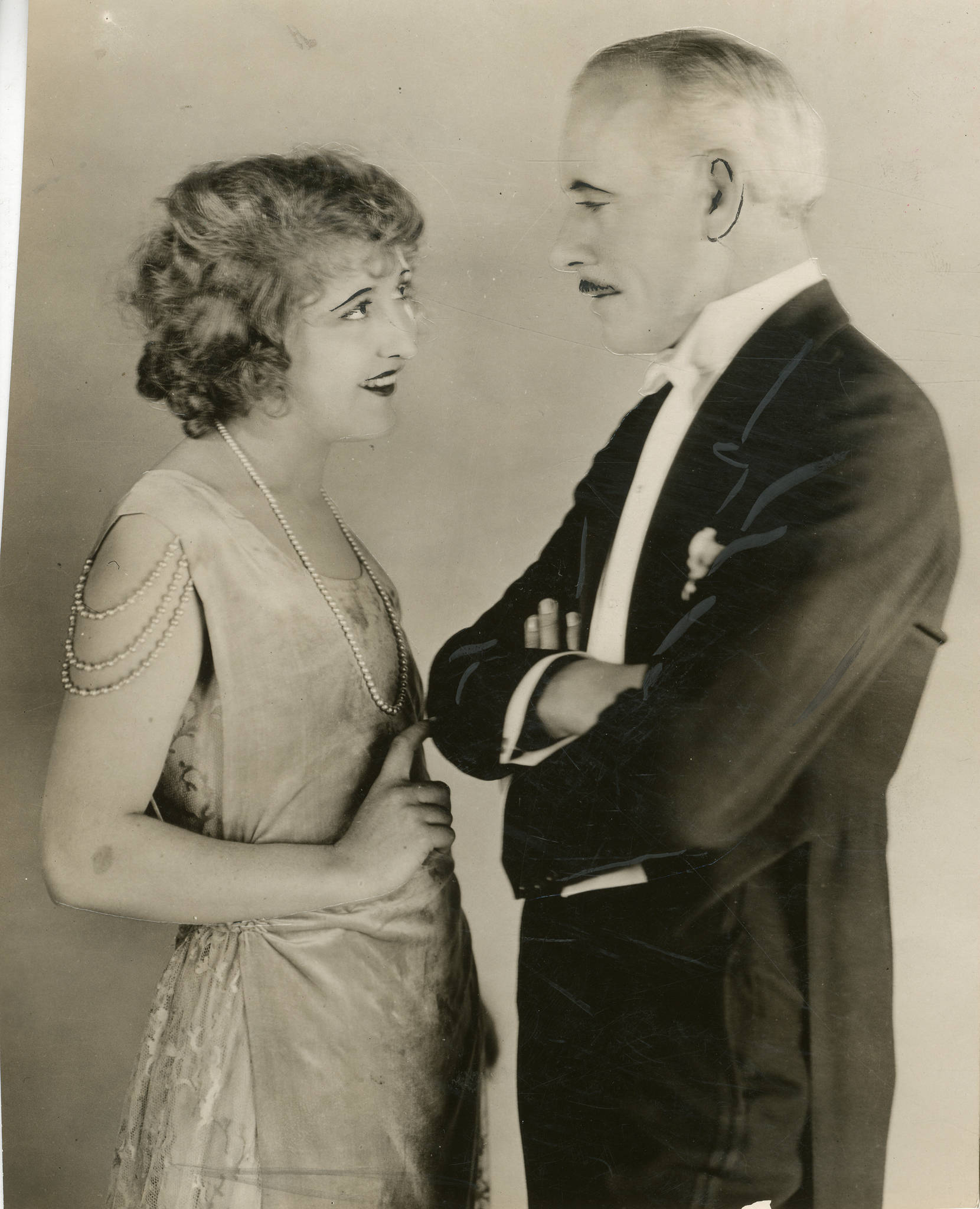 Still from the American film The Dangerous Age (1923). Subjects: motion pictures, actresses, actors